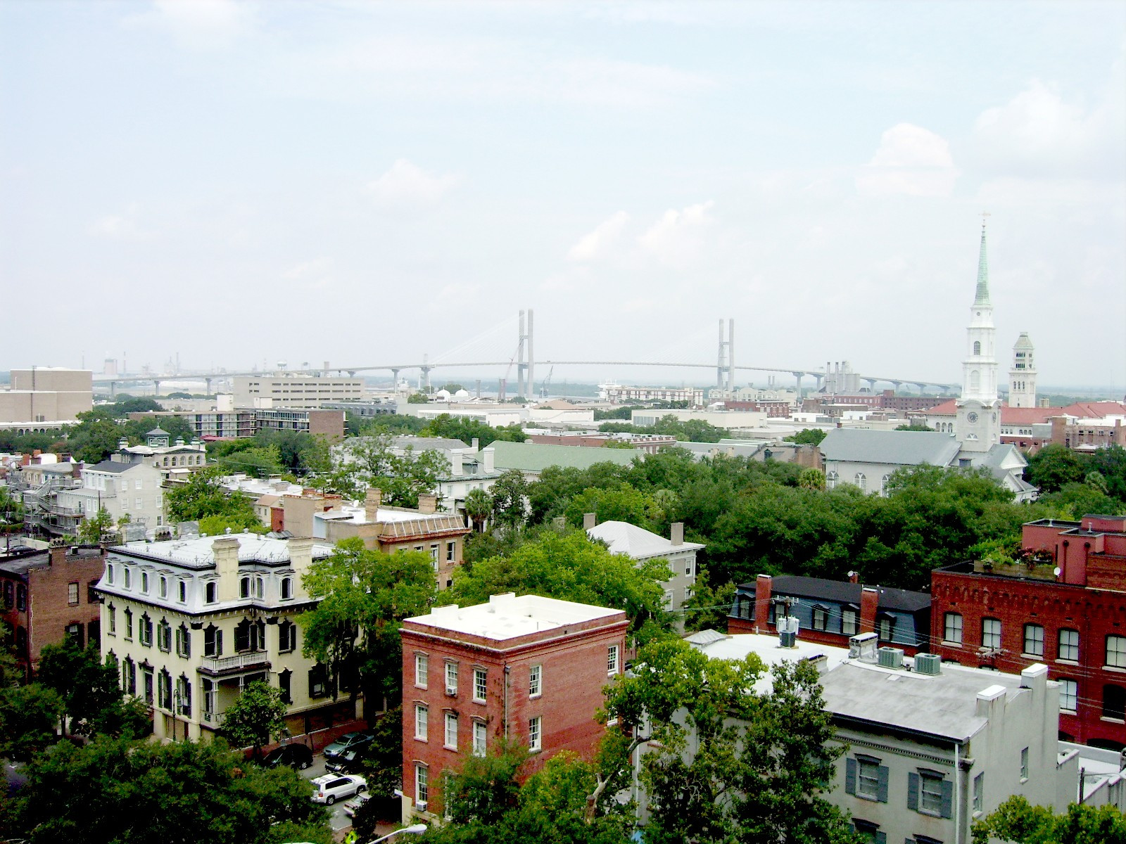 Digital photo taken by Marc Averette 16:46, 6 October 2006 (UTC) Downtown Savannah, GA as seen from the Hilton.